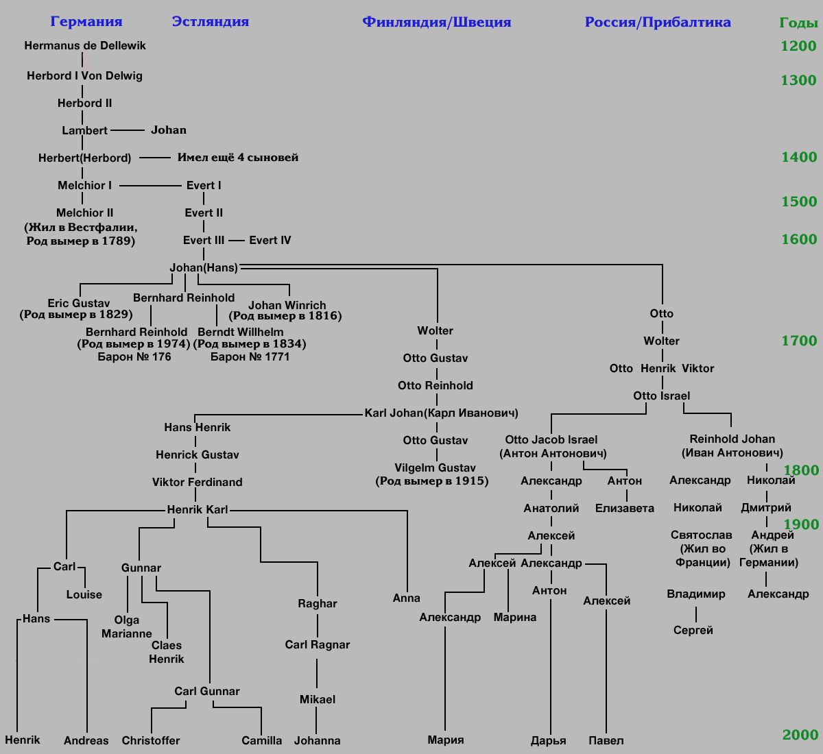 The updated version of the Baron family von Delwig with particular reference to the Russian branch of the family